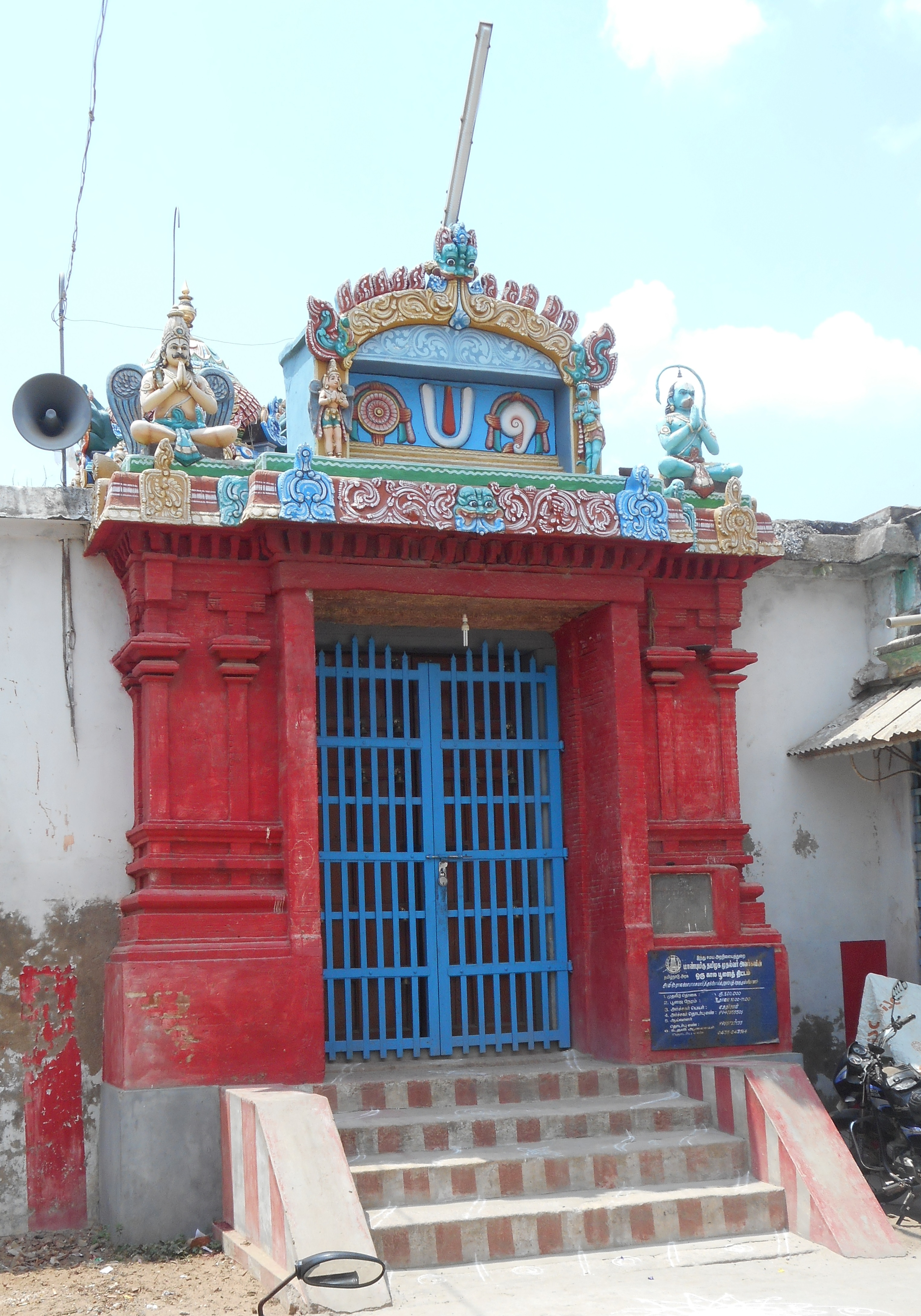 Kumbakonam Thoppu theru rajagopalasamy temple கும்பகோணம் தோப்புத்தெரு ராஜகோபாலசுவாமி கோயில்